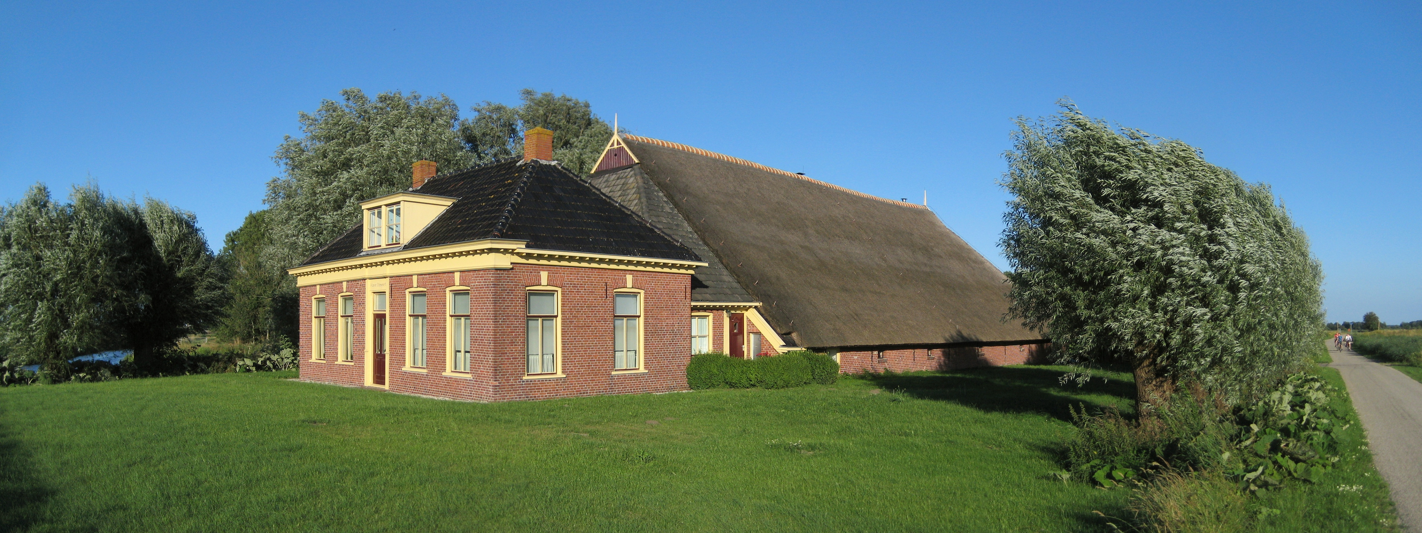 Eiteweert, a farm in Matsloot in the Dutch province of Drenthe.